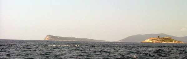 Mamula Islet, Montenegro (rightmost), with Prevlaka (Croatia) behind it Photo by: Aleksandar Bogicevic